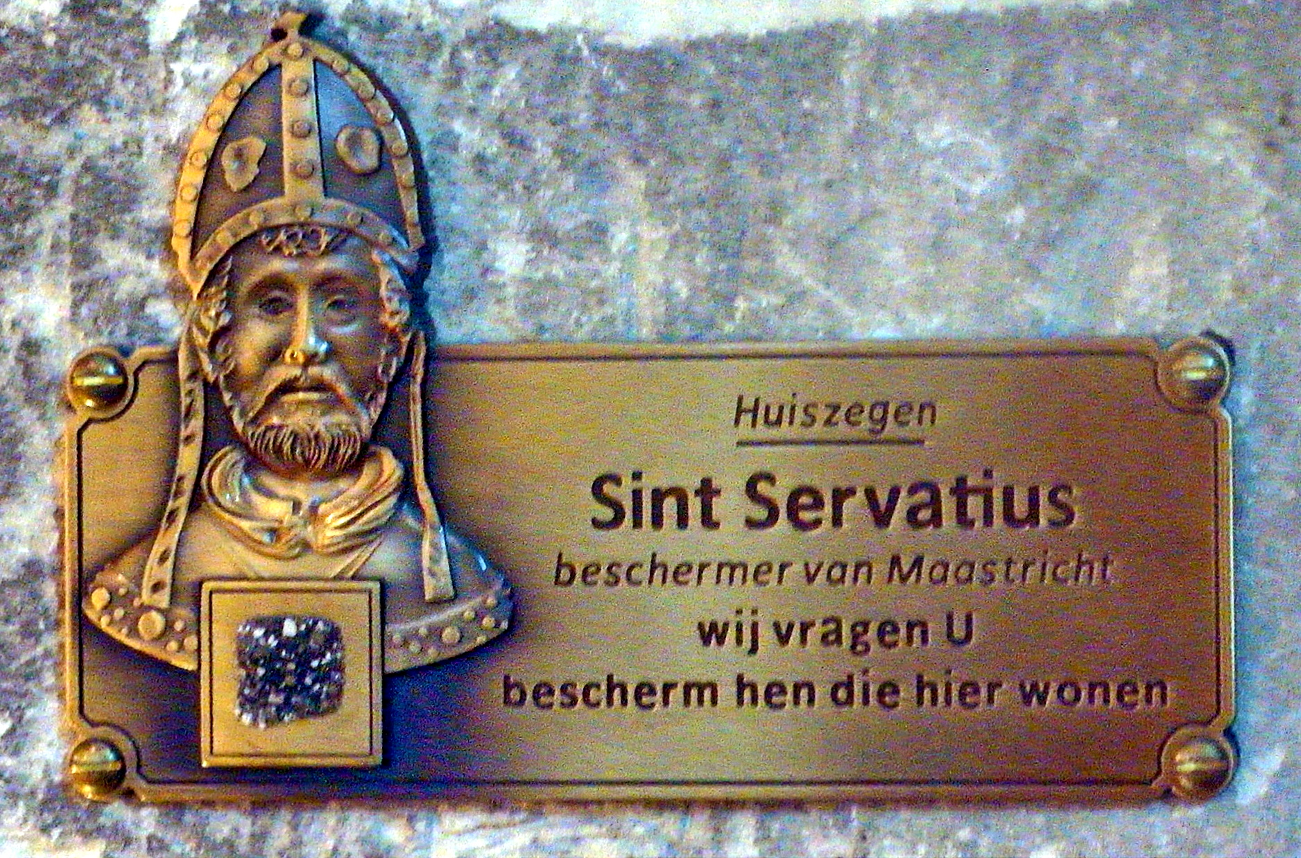 Plaque of the official blessing conferred on the Kruisherenhotel by Saint Servatius, inside Kruisherenkerk, Maastricht, the Netherlands. The Gothic church and monastery of the Croziers (or Crutched Friars) dates from the 15th century and was converted into a luxury hotel (Kruisherenhotel) in 2003-05. Prior to this, from 1985 until 1990 the church was the temporary parish church of the parish of Saint Servatius. The blessing of homes, churches and other buildings is a Roman Catholic tradition.